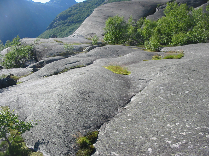 Siim Sepp, 2006 Glacially abraded rocks in western Norway near Jostedalsbreen glacier.